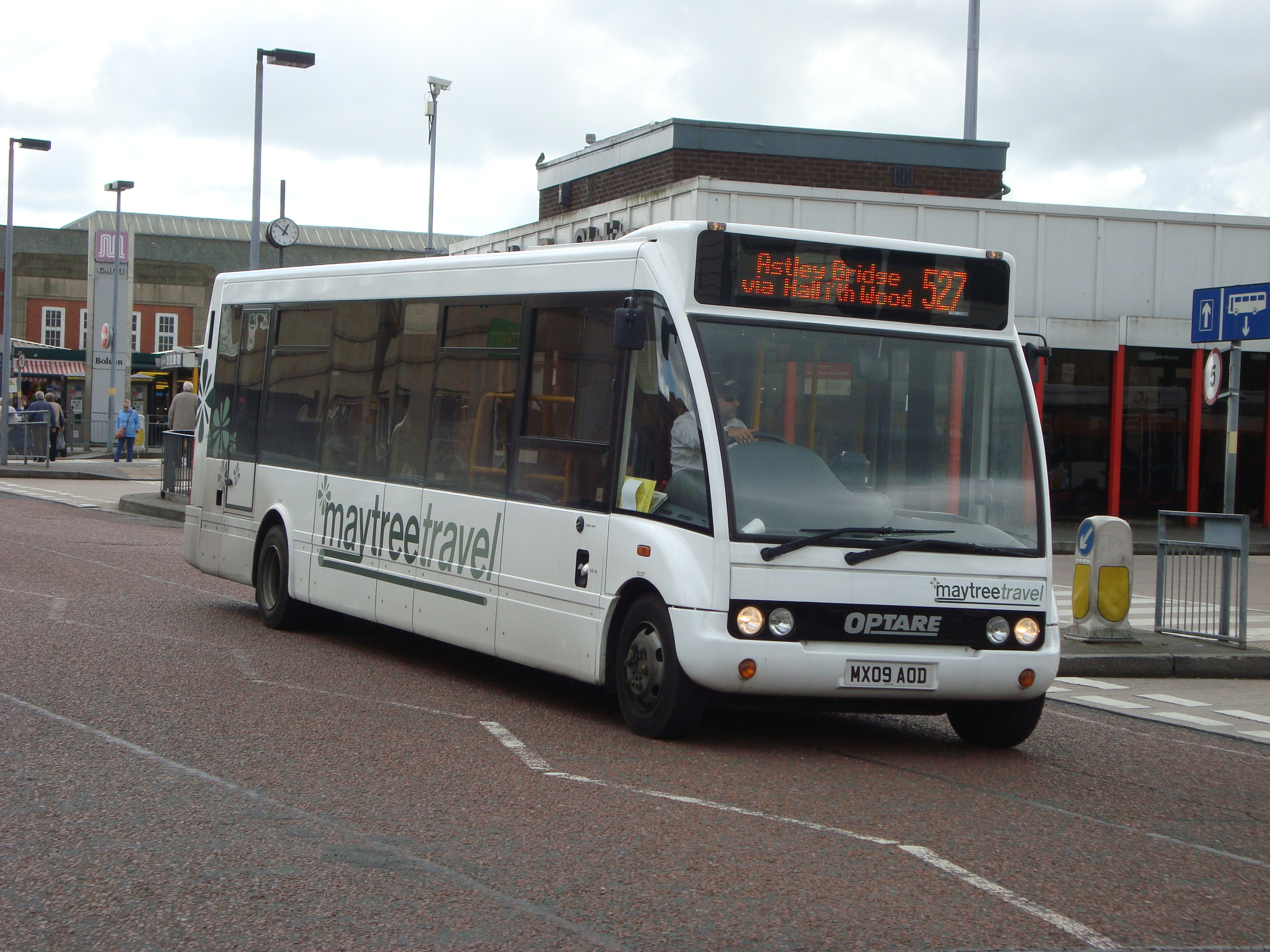 Maytree Travel bus (reg. MX09 AOD), a 2009 Optare Solo M950SL midibus, in Bolton on route 527.